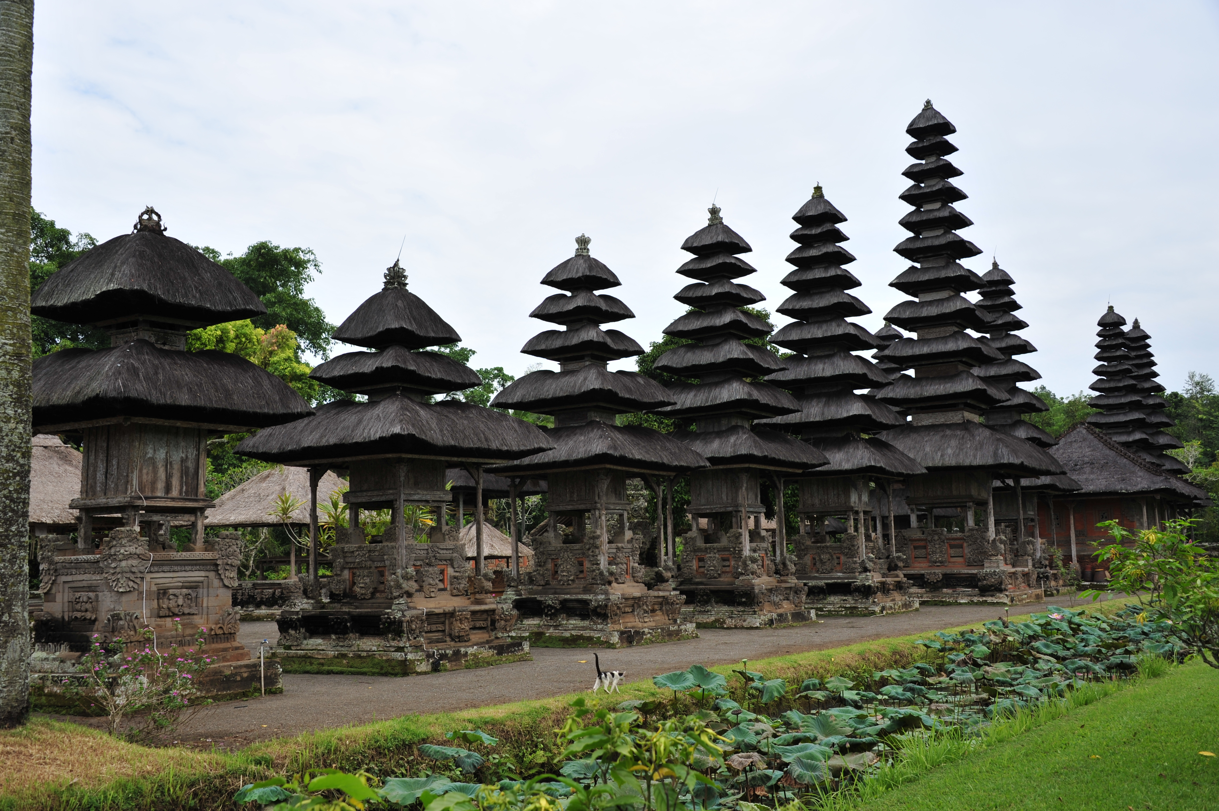 Pura Taman Ayun Bali Indonesia 2011 hindu temple